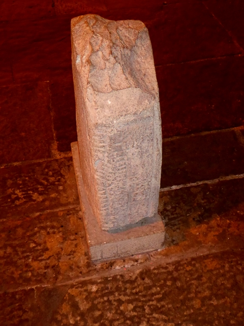 The Killaloe Stone, also called Shantraud Ogham-Runic Stone (CIIC 54), in the St Flannan's Cathedral in Killaloe, County Clare, Ireland has both an Ogham and a runic inscription. In the picture the right side view with the Ogham inscription.